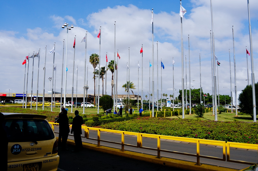 Jomo Kenyatta International Airport, locally known as JKIA is located in Nairobi, Kenya. It is East and Central Africa's busiest airport and is an important aviation hub continentally.